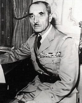 Portrait of General Georges Catroux, former Governor of French Indo-China, who was superseded when he refused to carry out the instructions of the Vichy Government. He joined General Charles De Gaulle's staff with the Free French forces.